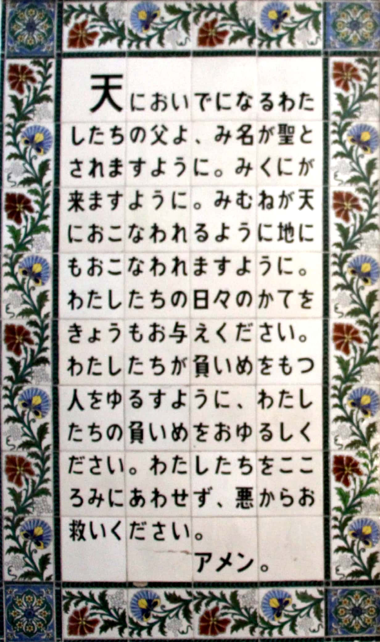 The Lord's Prayer in Japanese at the Church of the Pater Noster, Jerusalem, Israel